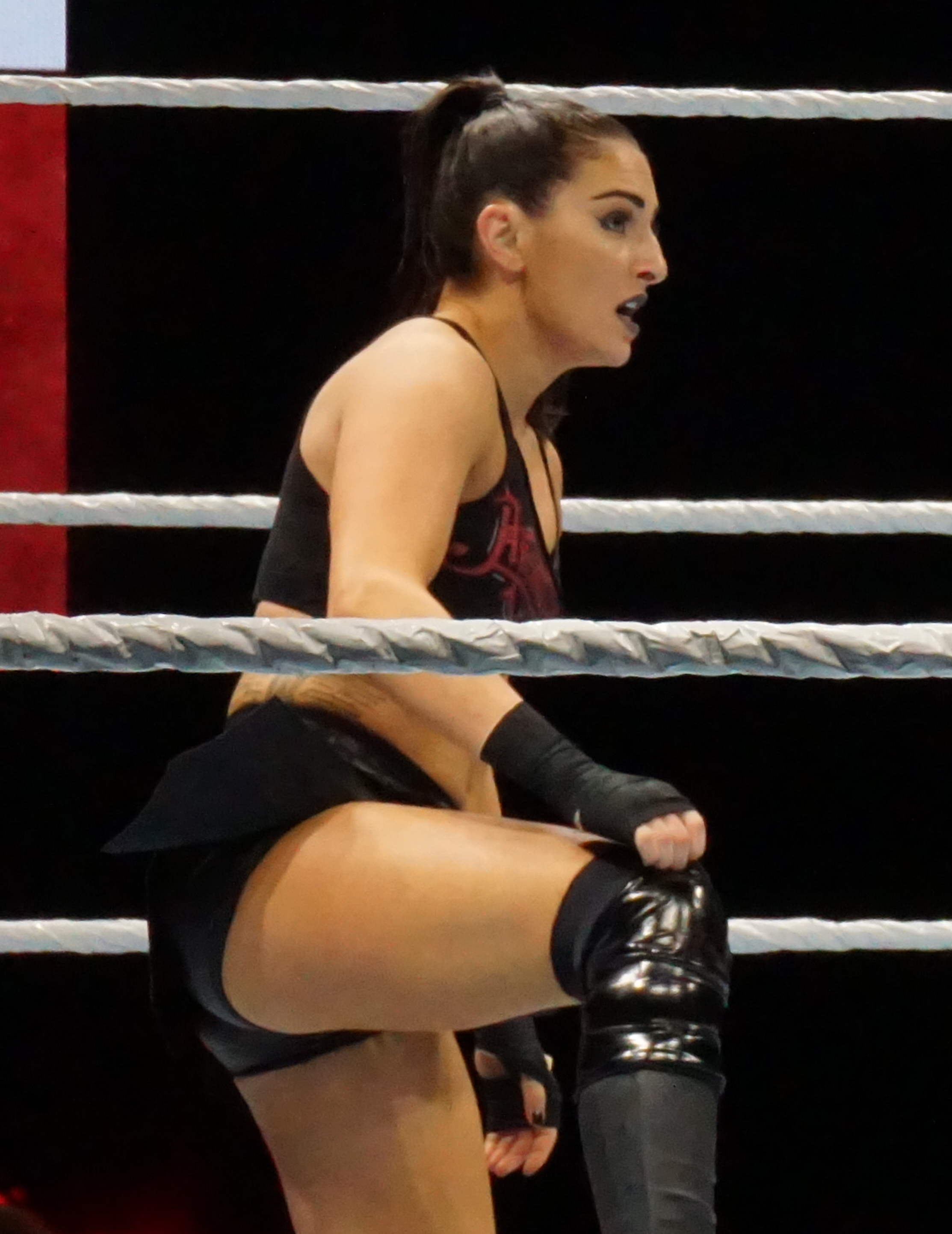 Deville at the WWE live show in Buffalo, NY.